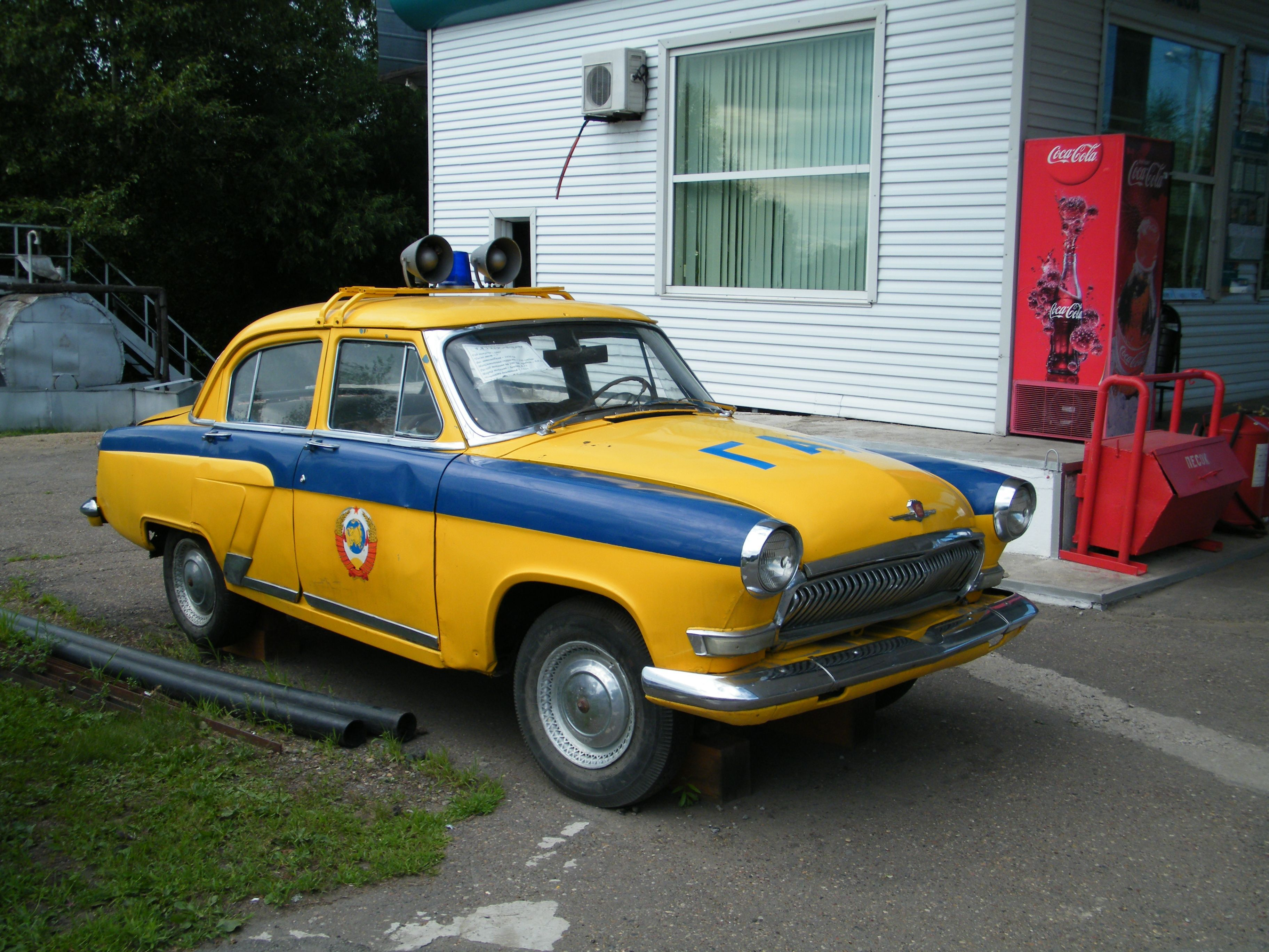 Volga GAZ-M-21